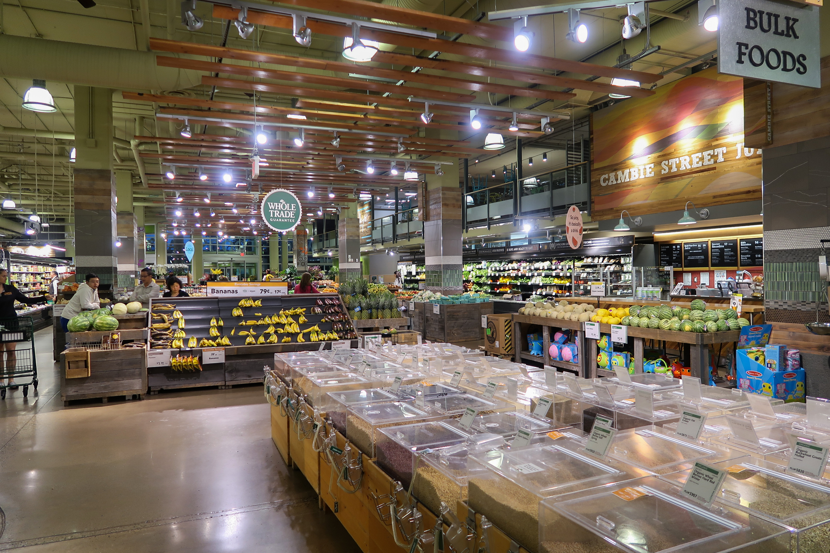 Whole Foods Market Vancouver Broadway Store